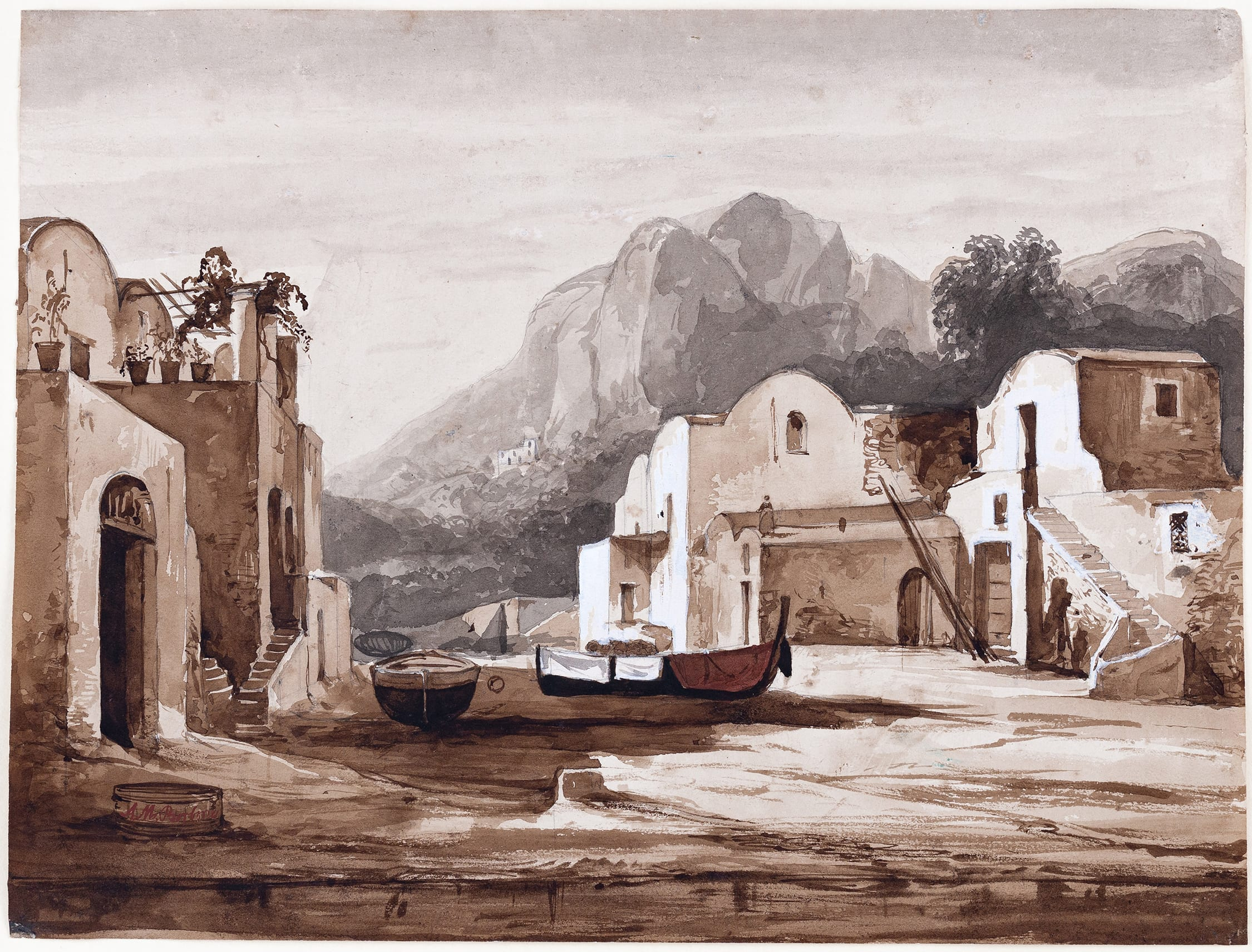 Offered for sale by Abbott and Holder in July 2020, when it was described as "Capri. Pencil, sepia washes and gouache. Signed. Circa 1855. Authenticated by Dr Luisa Martorelli, Museo di San Martino, Naples. Provenance: Princess Maria Pia di Borbone, Duchess of Parma (1849-1882) in an album of watercolours by her brothers and sister. 10.5x13.75 inches.".